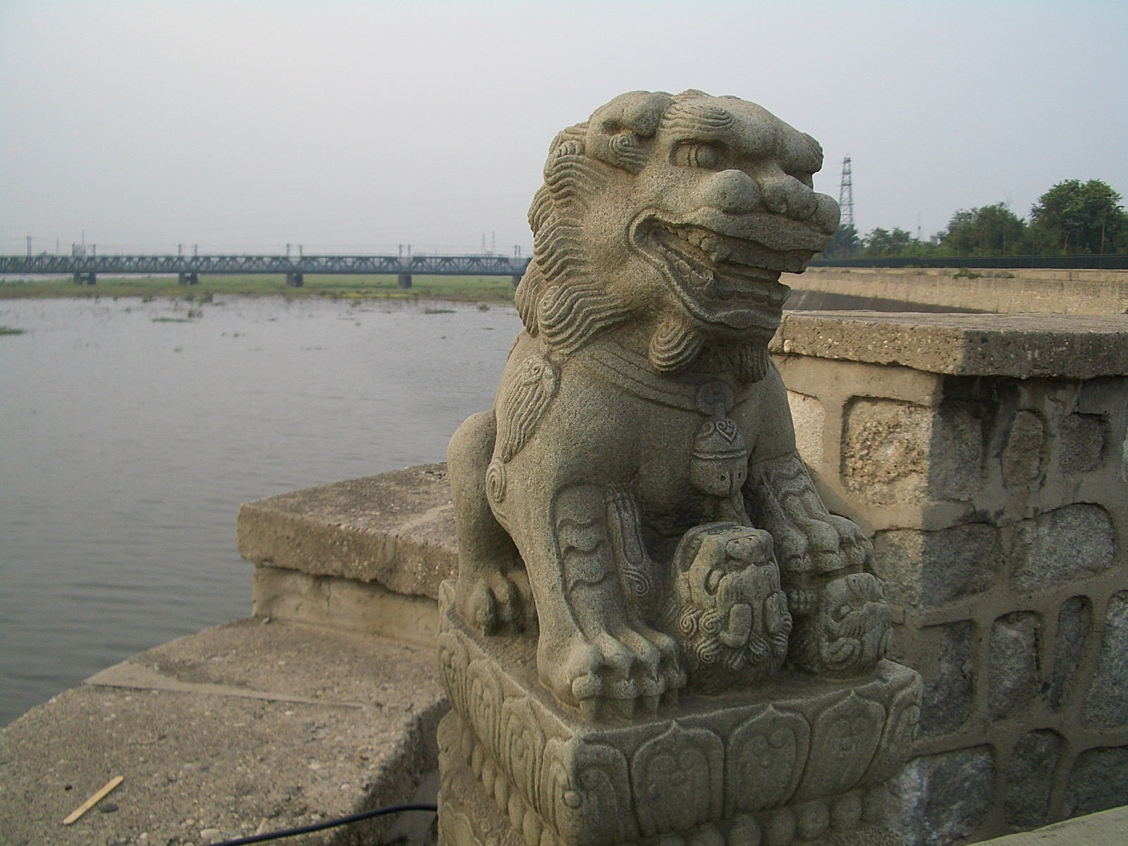 A few of the innumerable stone lions on the Lugou Bridge